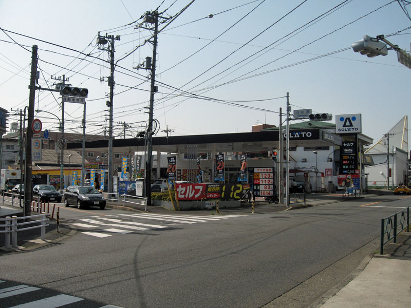 Taiyo Oil (SOLATO) Self Minamimachida SS, Machida, Tokyo, Japan